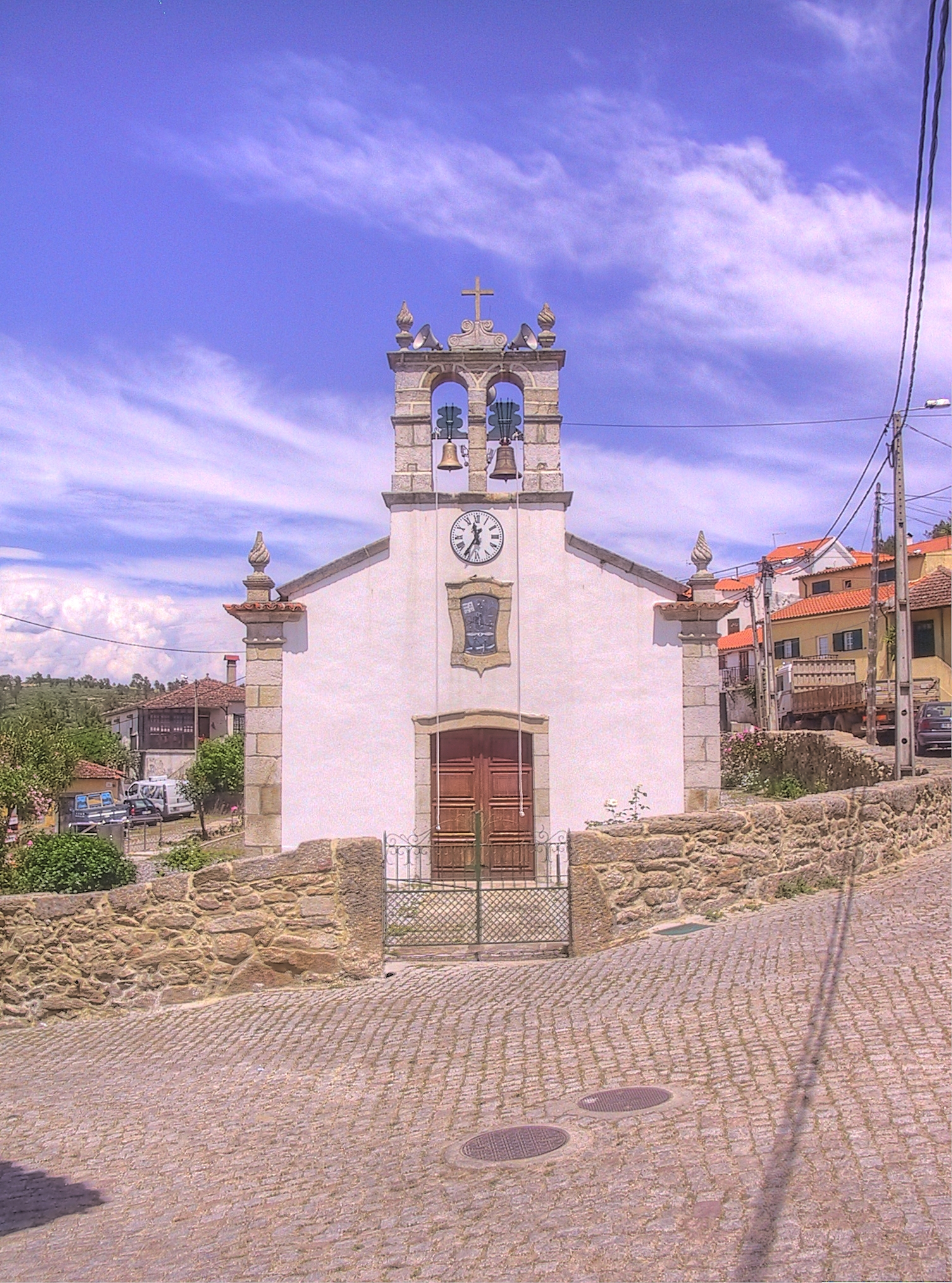 Vale das Fontes, Portugal - Church